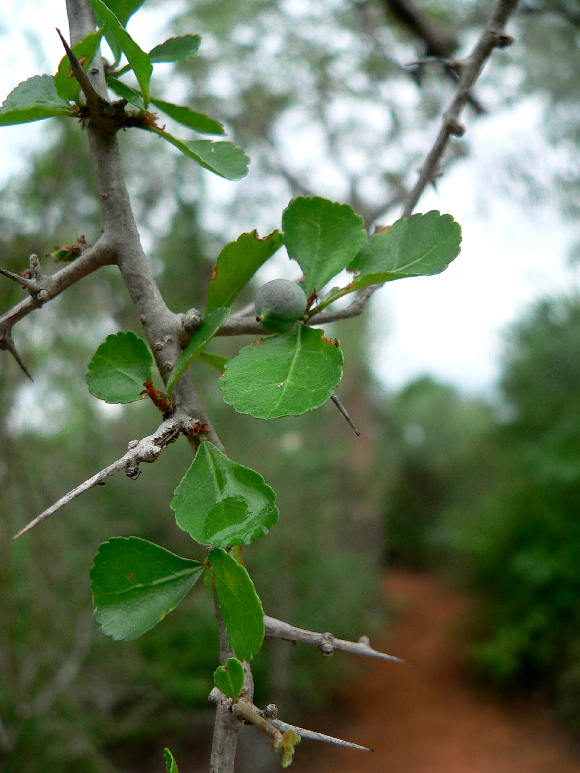 Commiphora simplicifolia (Burseraceae), leaves and fruit, spiny forest at Mangily, western Madagascar